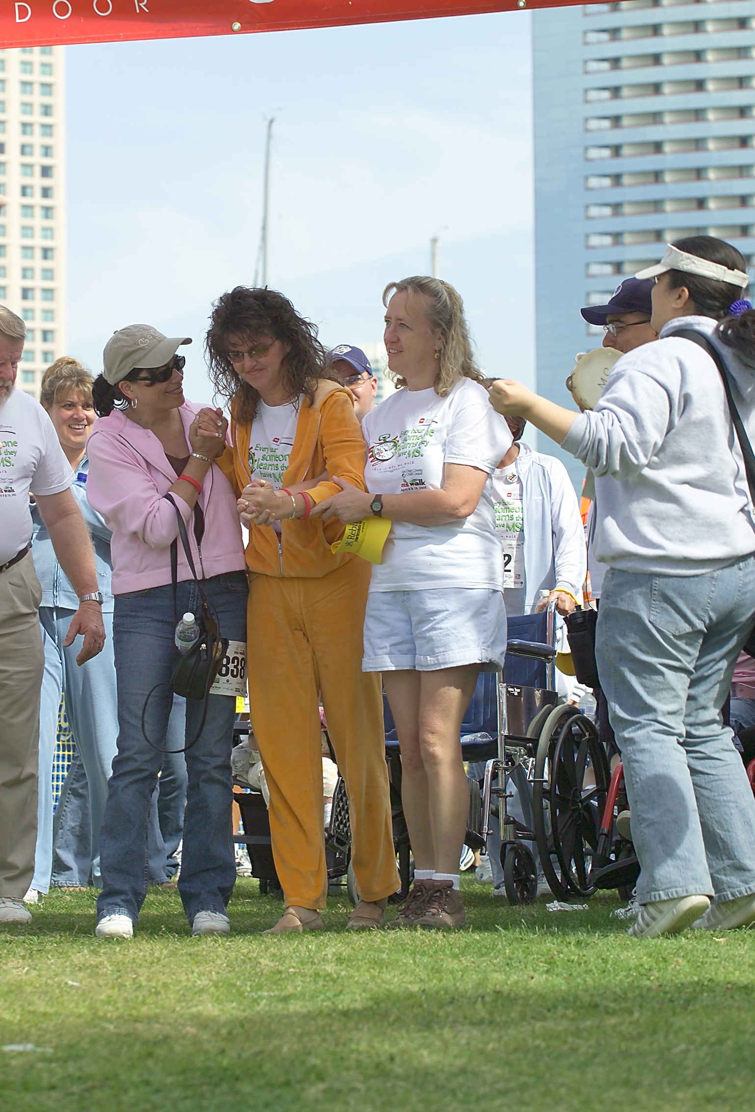 Dee Dean from Alpine, Ca stands from her wheelchair and crosses the finish line to the 2005 MS Walk with assistance from her friends. Debbie Jackson, the President of the Kiwanis Club of Alpine accompanied Dean throughout the walk and their organization raised $____ for this years event.